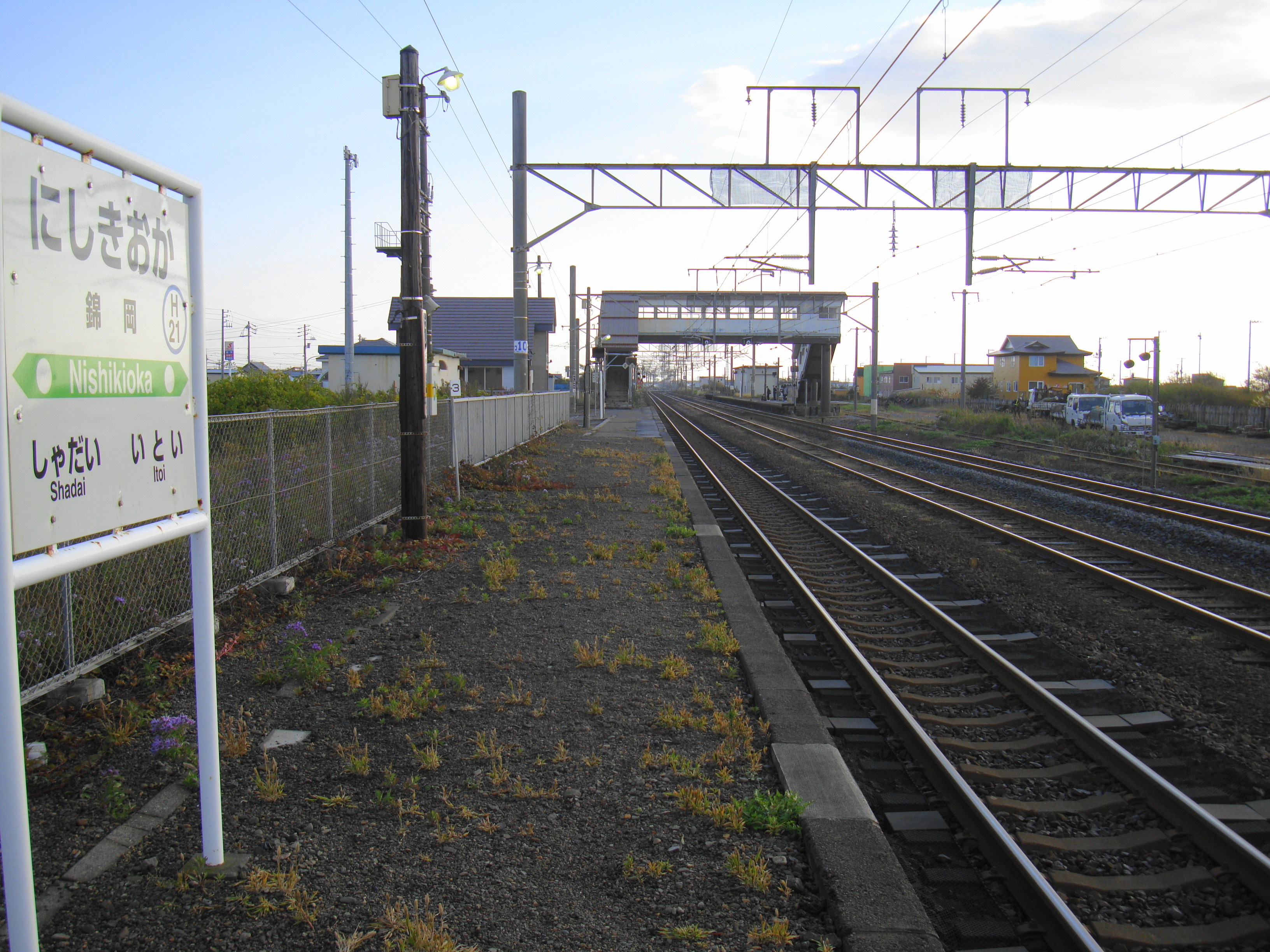 Nishikioka Station